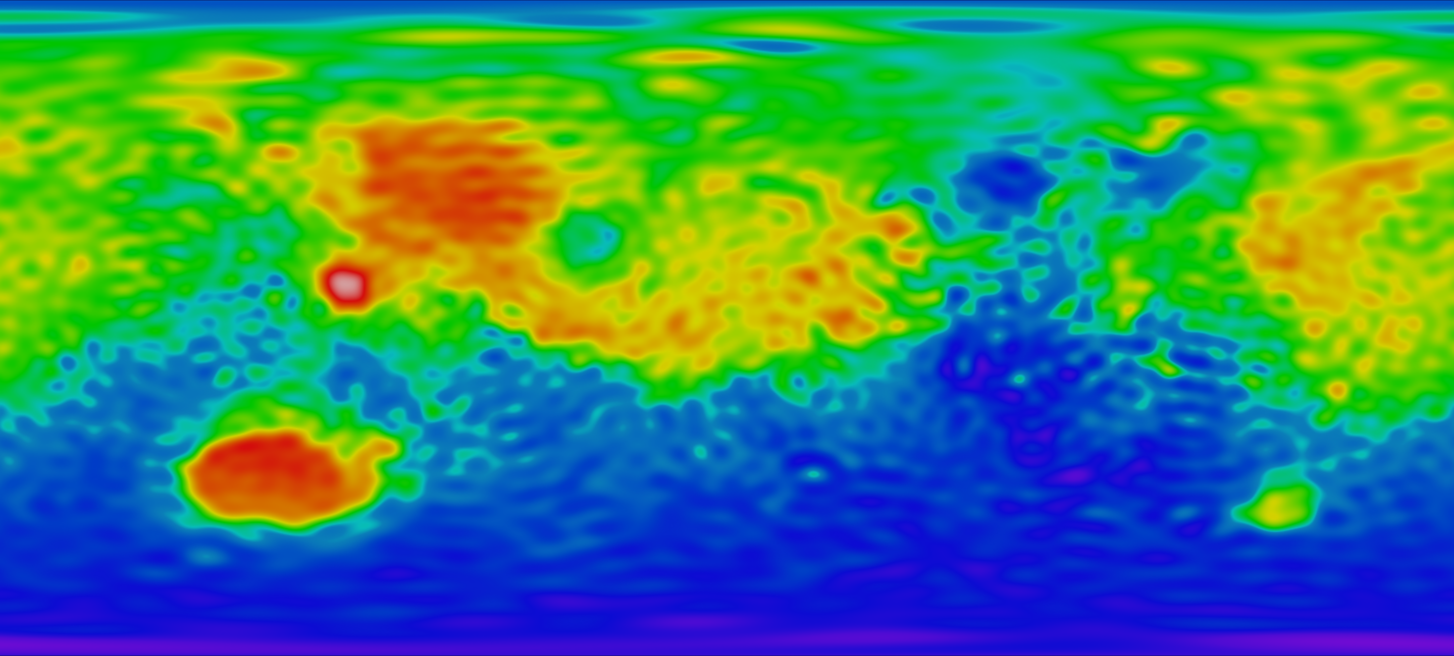 Mars Mantle (MOHO) Topography Map. Red means high area and blue means low area, which reveals that the crust in red area is relatively thin and the crust in blue area thick, taking surface topography into consideration. It is converted from tiff to png file using Adobe Photoshop 7.0.1.